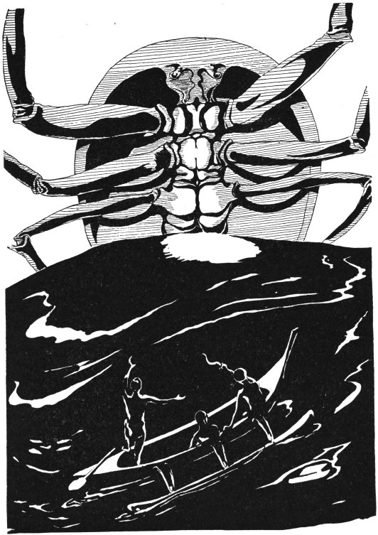 Original woodcut illustration for The Just So story 'The crab that played with the sea' by Rudyard Kipling